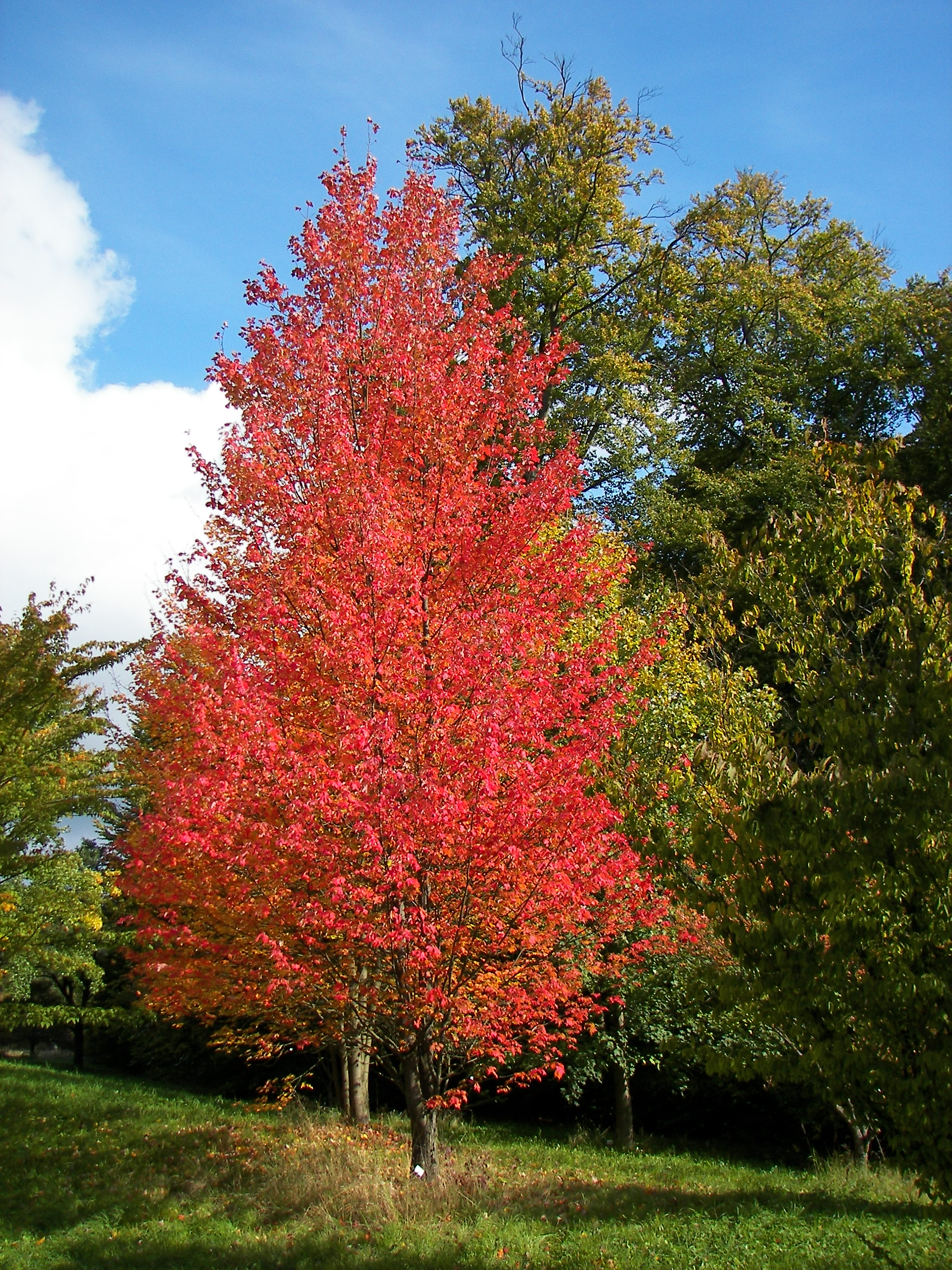 Red Maple (Acer rubrum) in the New Botanical Garden Marburg in Hesse, Germany.